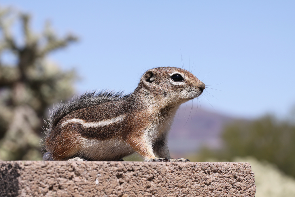 Harris's Antelope Squirrel from Gold Canyon, Arizona, USA